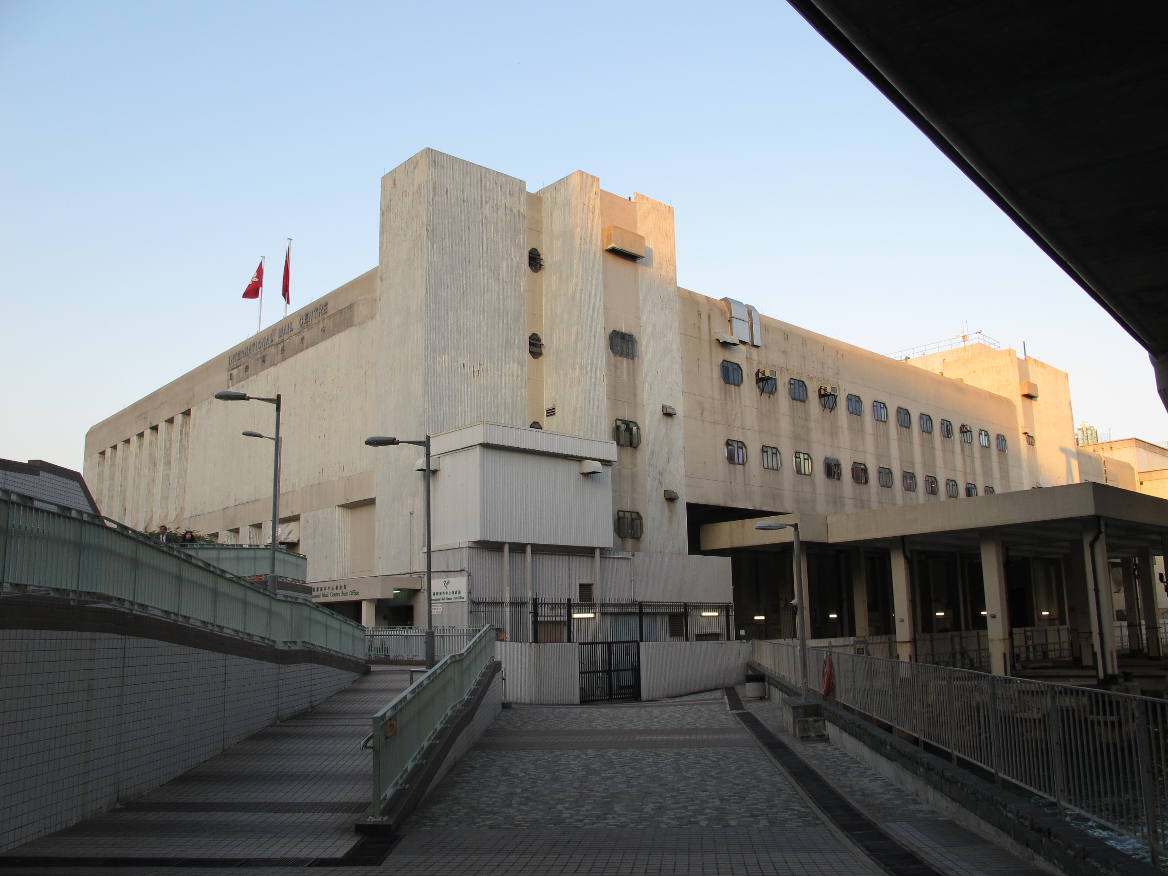 International Mail Centre